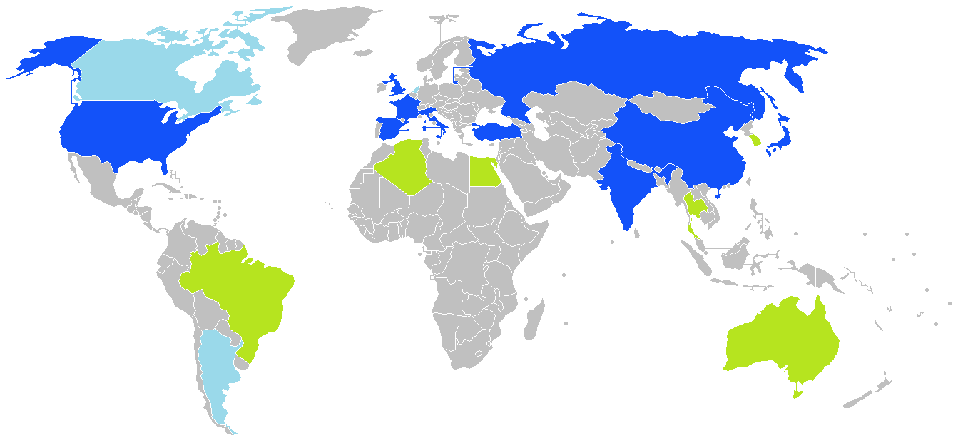 Countries currently operating aircraft carriers in dark blue, countries currently solely operating helicopter carriers in green, countries who in the past operated aircraft carriers but currently do not in light blue.